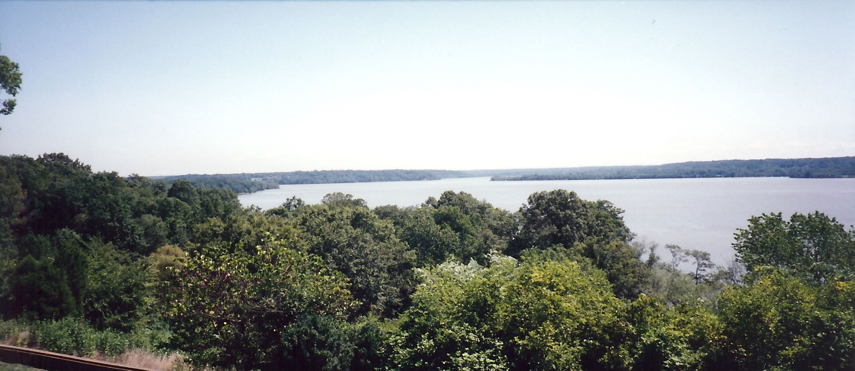 View of the Potomac River from the Mount Vernon plantation, Virginia.